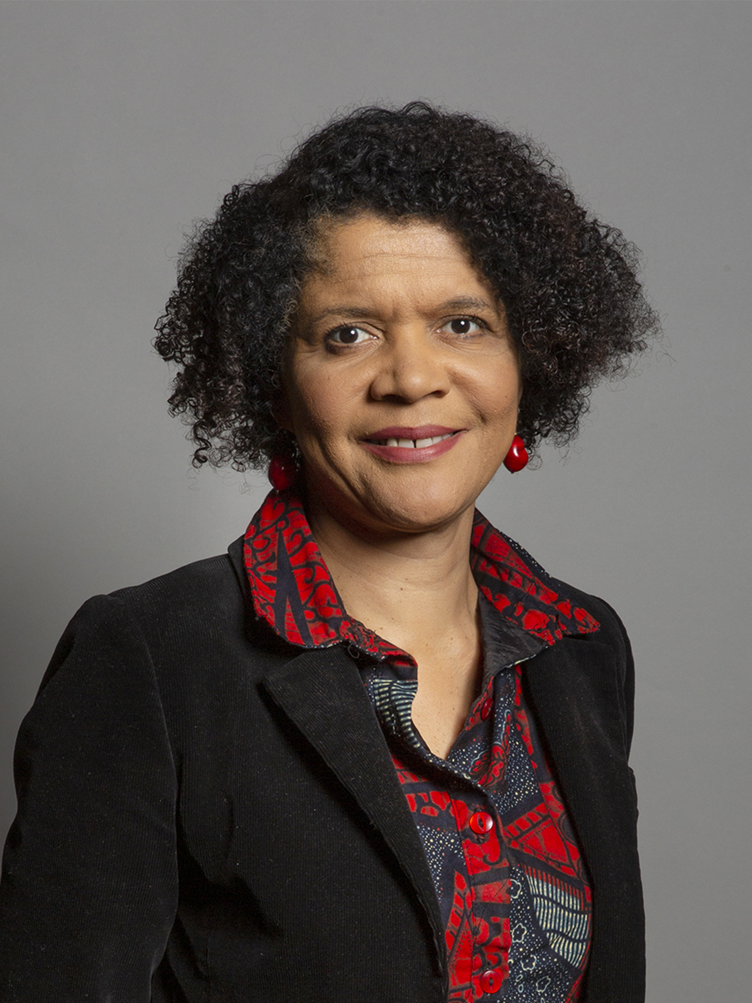 Official portrait of Chi Onwurah MP 3×4 portrait of Chi Onwurah